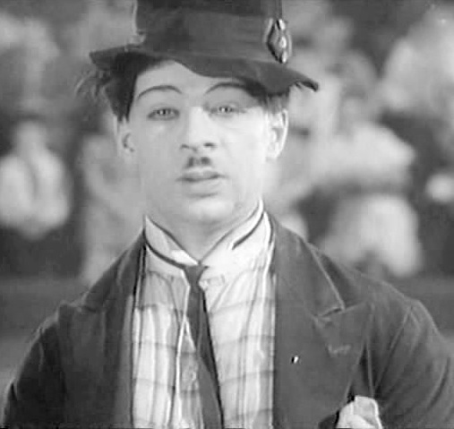 Karandash in Vysokaya nagrada (1939)